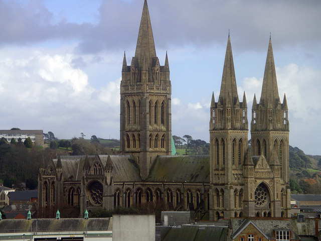 Truro Cathedral, Truro, England